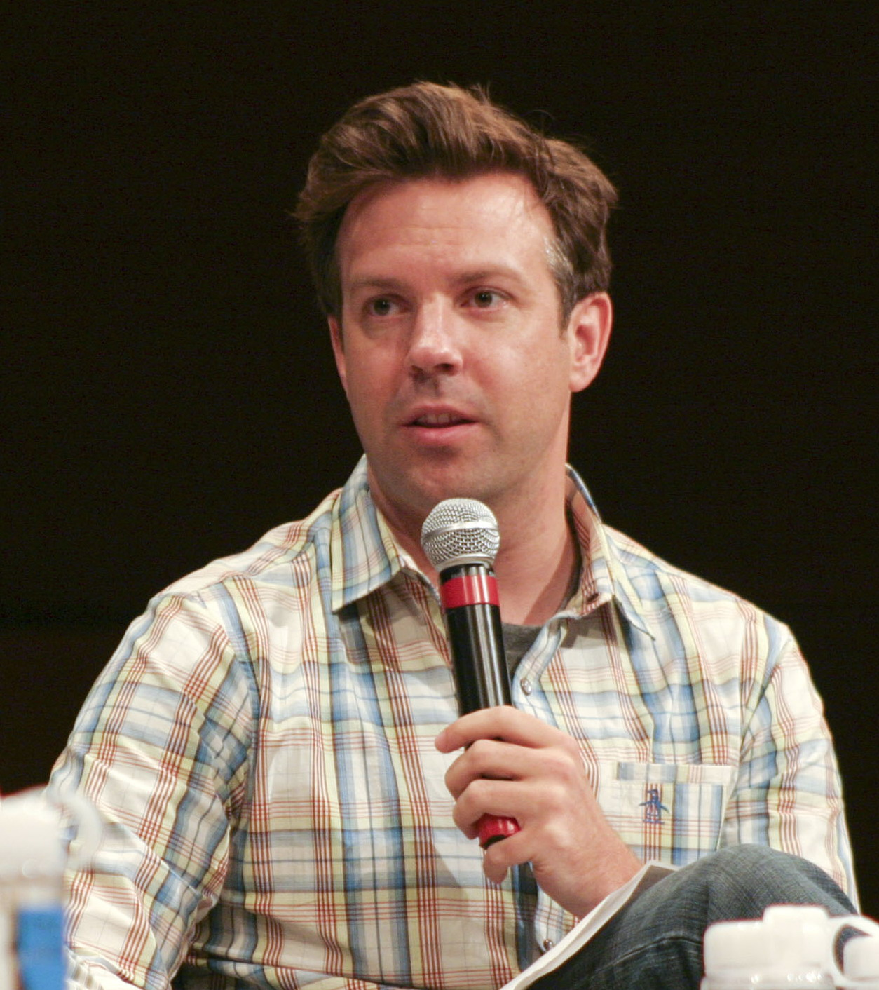 Jason Sudeikis at the 2009 New York Television Festival. © Rubenstein, photographer Martyna Borkowski